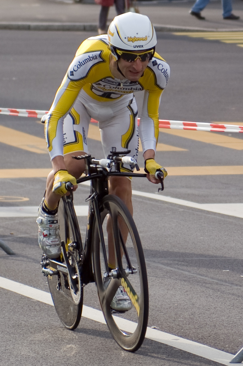 Michael Barry, Tour de Romandie 2009